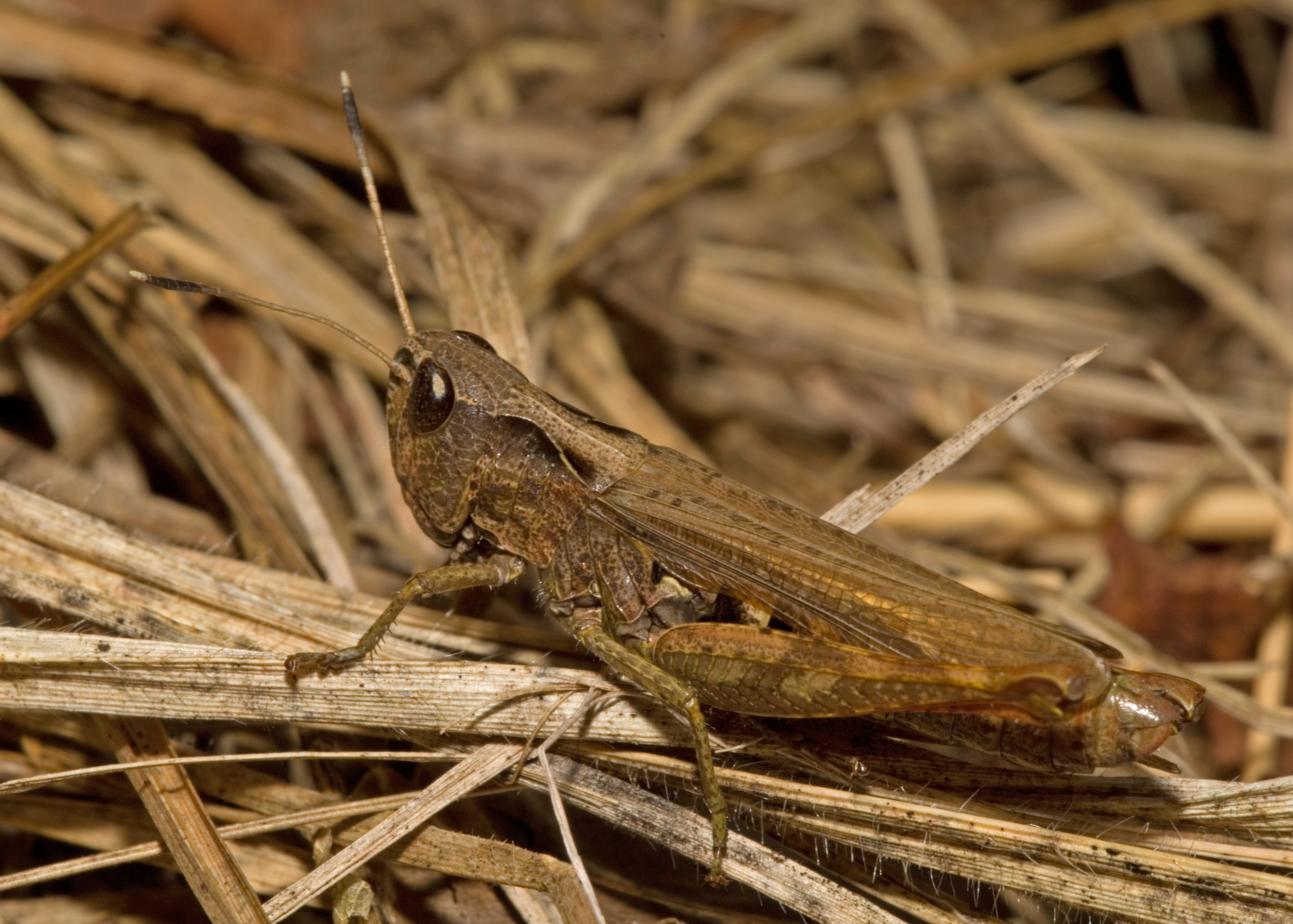 Description: Gomphocerippus rufus